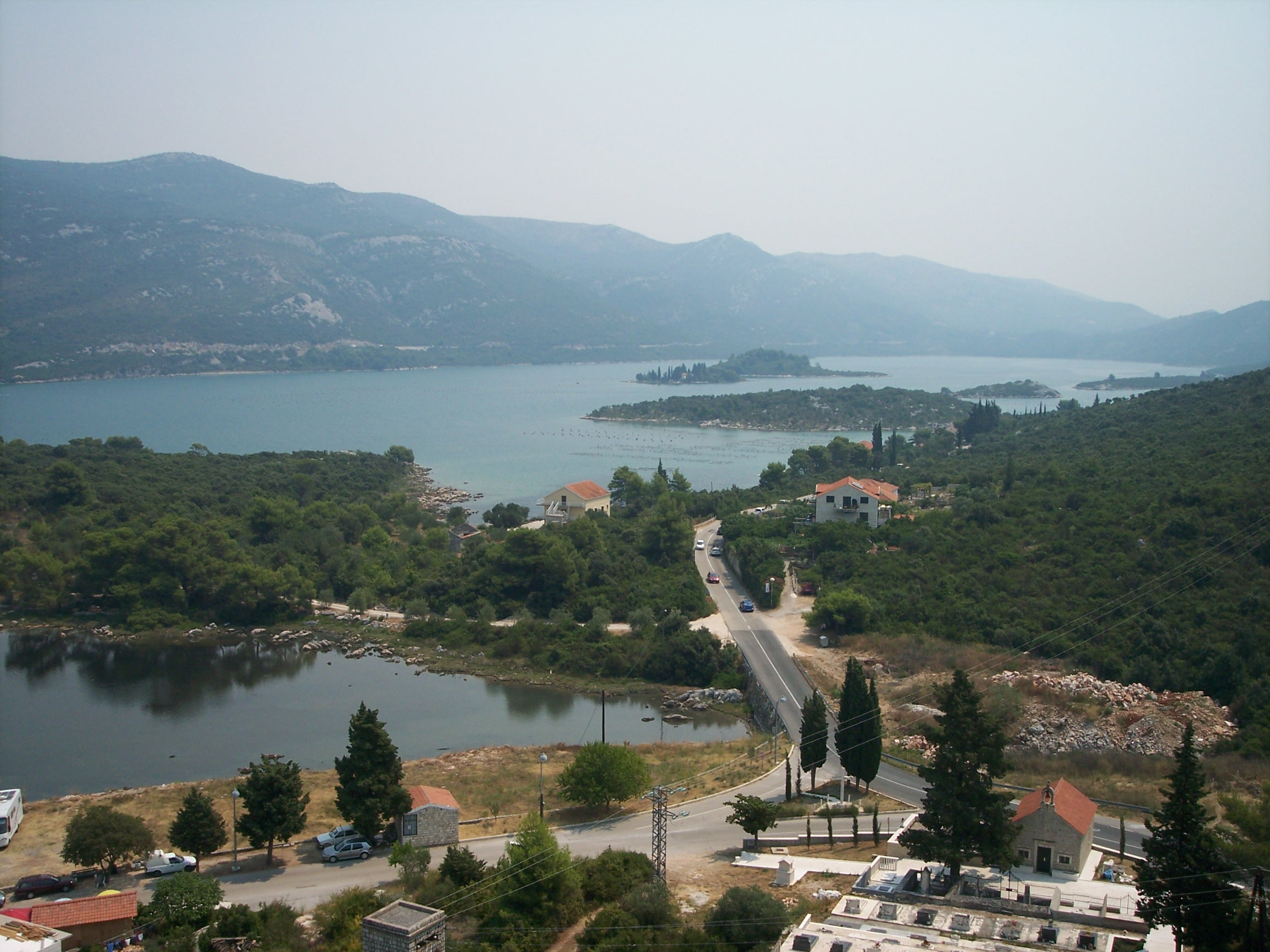 Fortifications at Ston (Croatia)